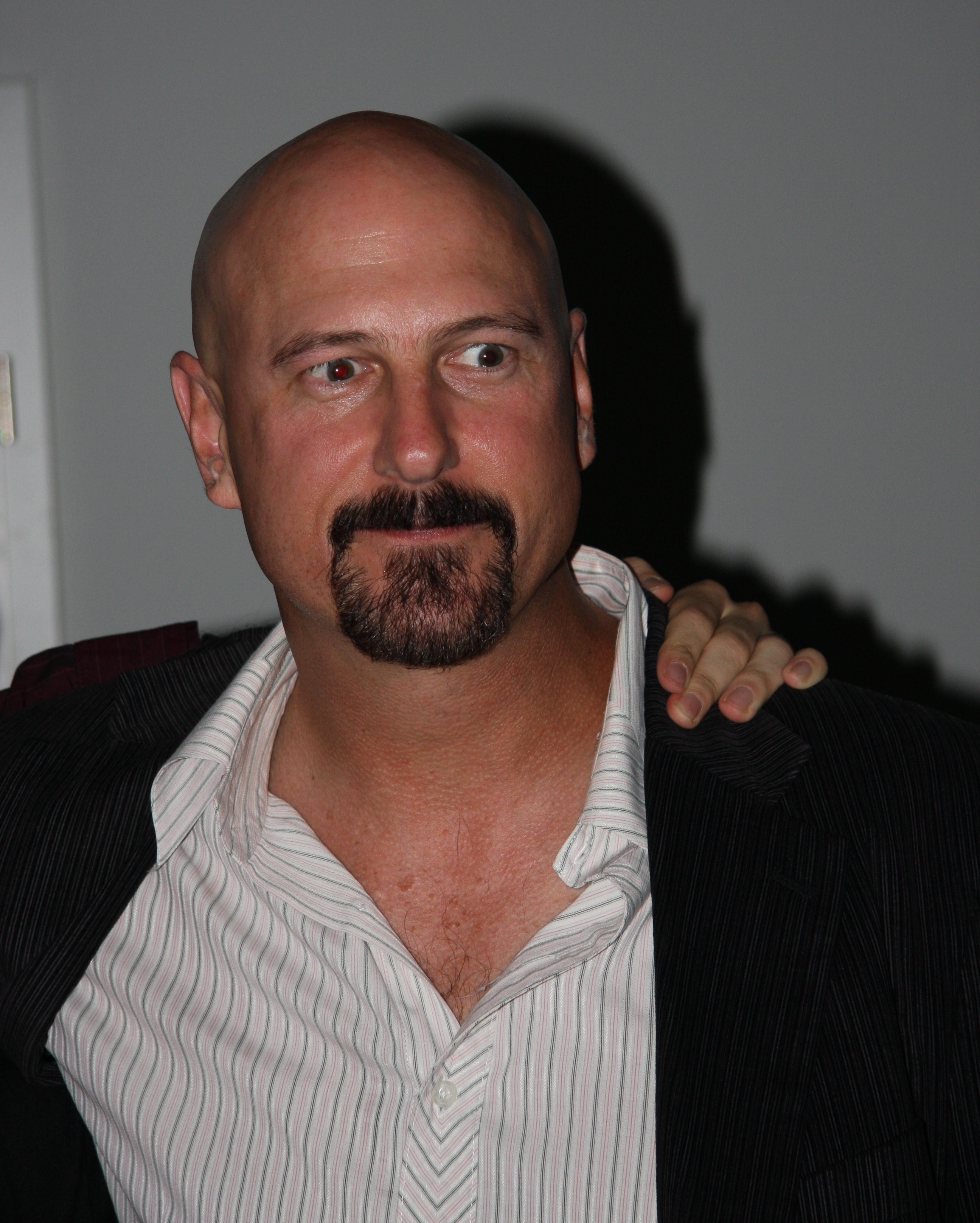 Joseph D. Kucan at the Gamescom 2009